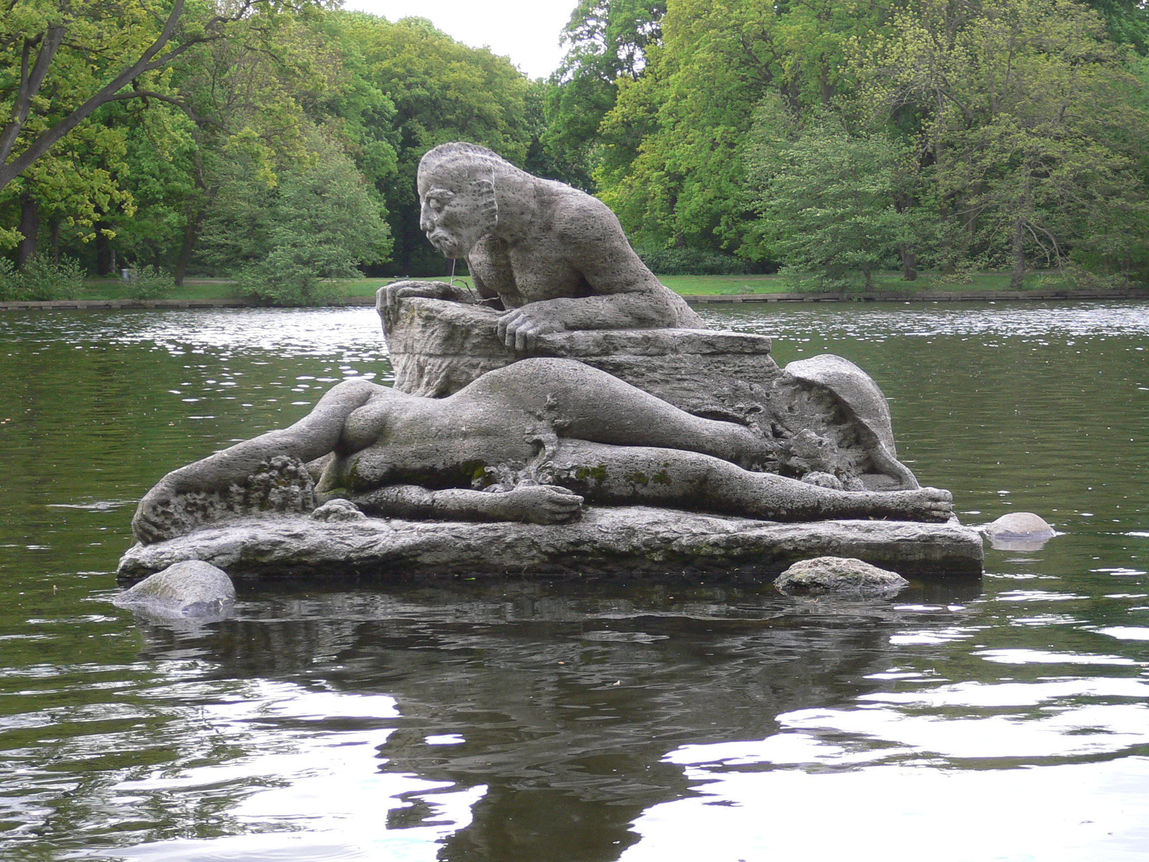 Treptower Park, Berlin-Alt-Treptow, Berlin, Germany – sculpture Nök vom Meeresgrunde (translation (first try): Merman from sea ground) in the Karpfenteich (en: carp pond) by Otto Petri 1907